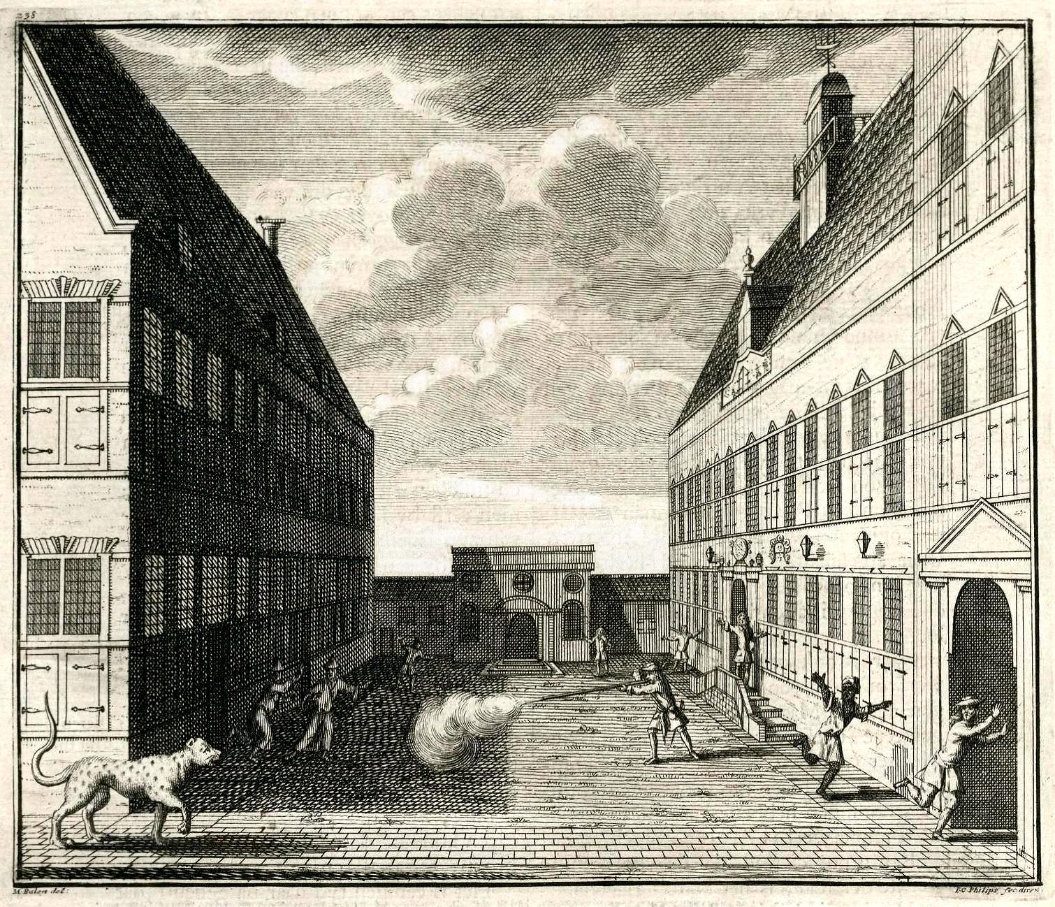 A 'tiger' being shot on Batavia (from the book: Valentyn, Francois. Oud en Nieuw Oost-Indiën, part IV, first book, p. 238)